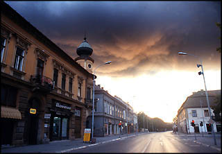 Cloudly Pancevo